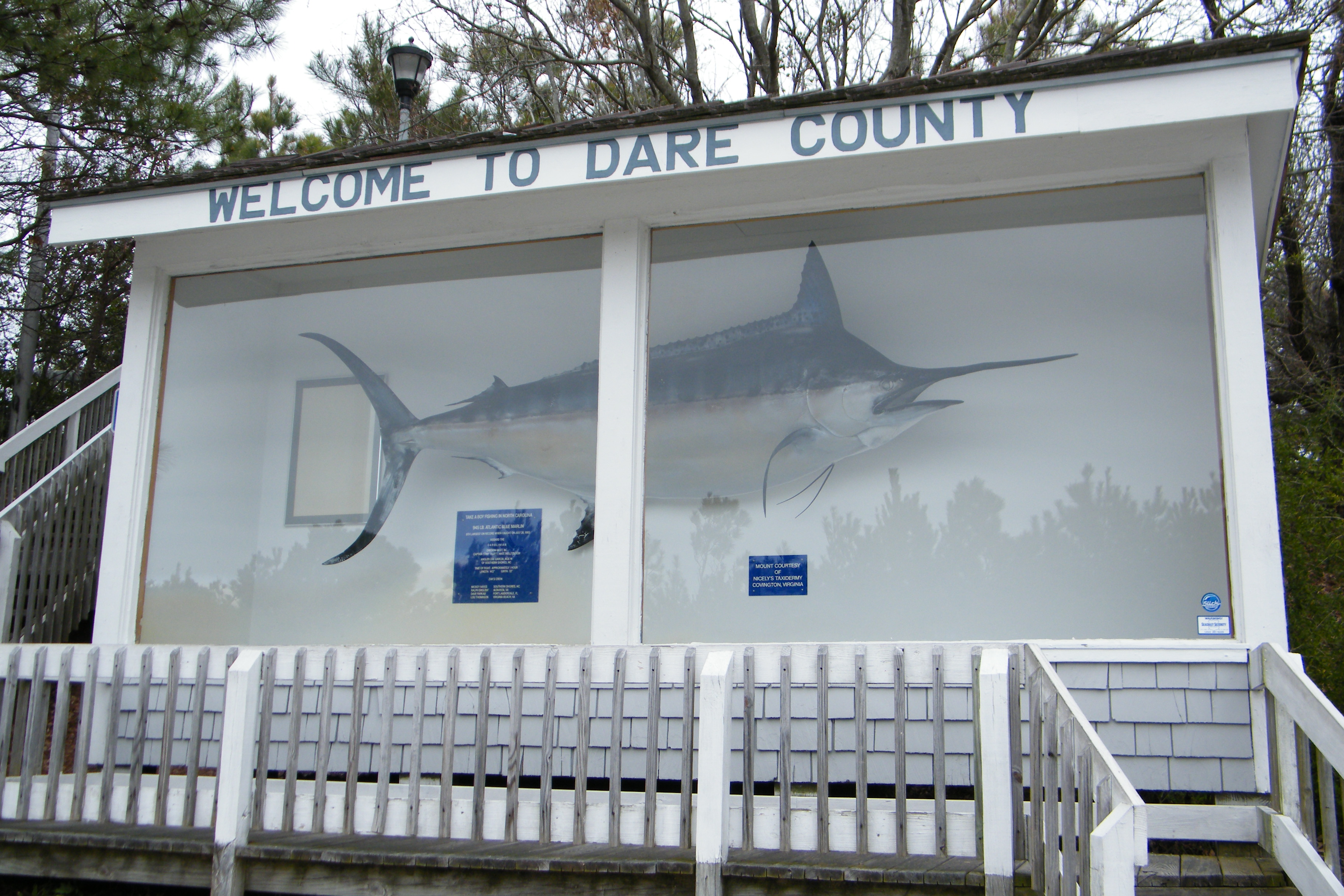 Dare County welcome center marlin in Kitty Hawk, North Carolina.